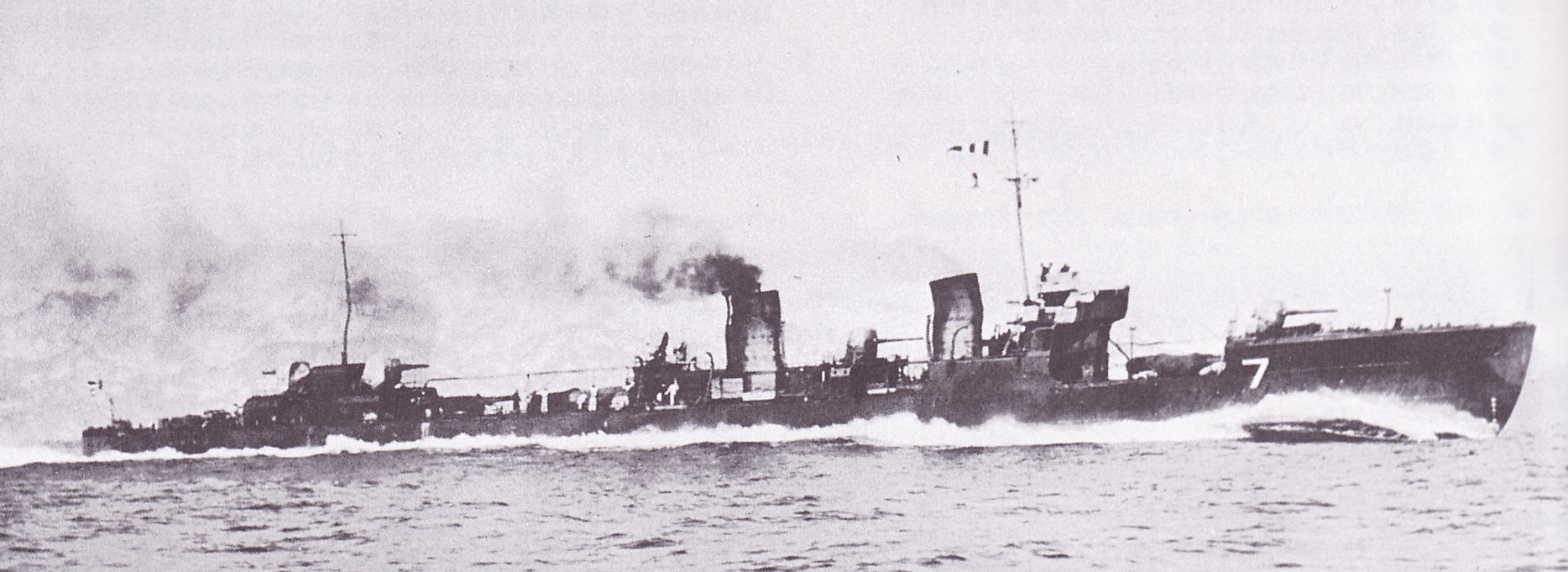 Imperial Japanese Navy destroyer Matsukaze, on speed trials off Maizuru, circa 1924.